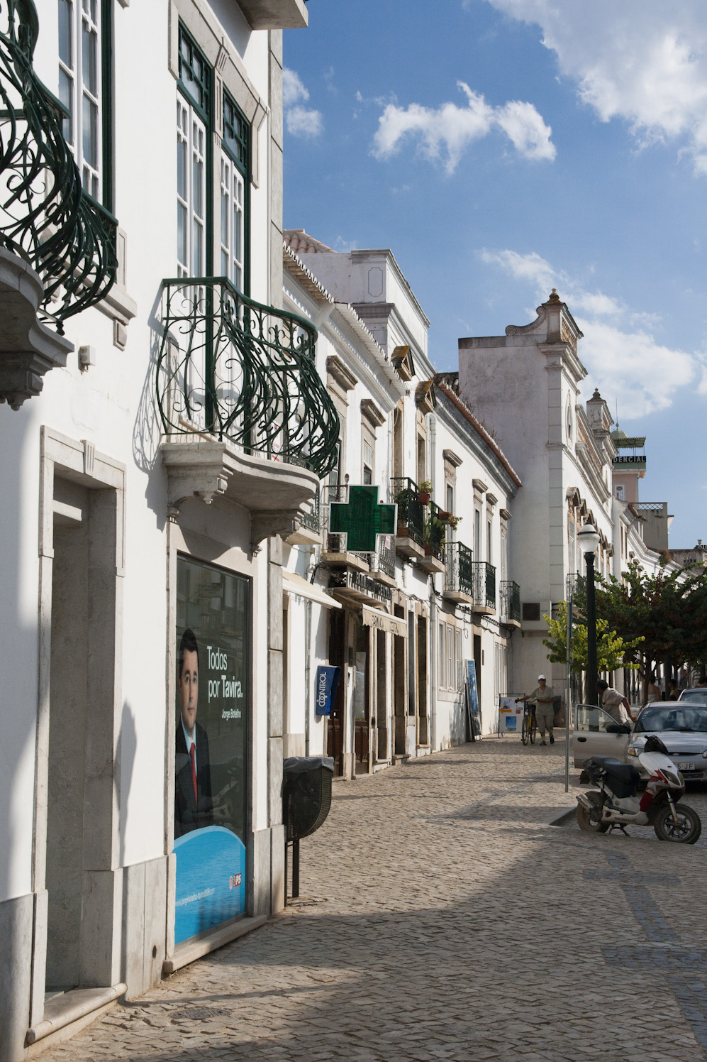 Portugal. Tavira, Rua da Liberdade